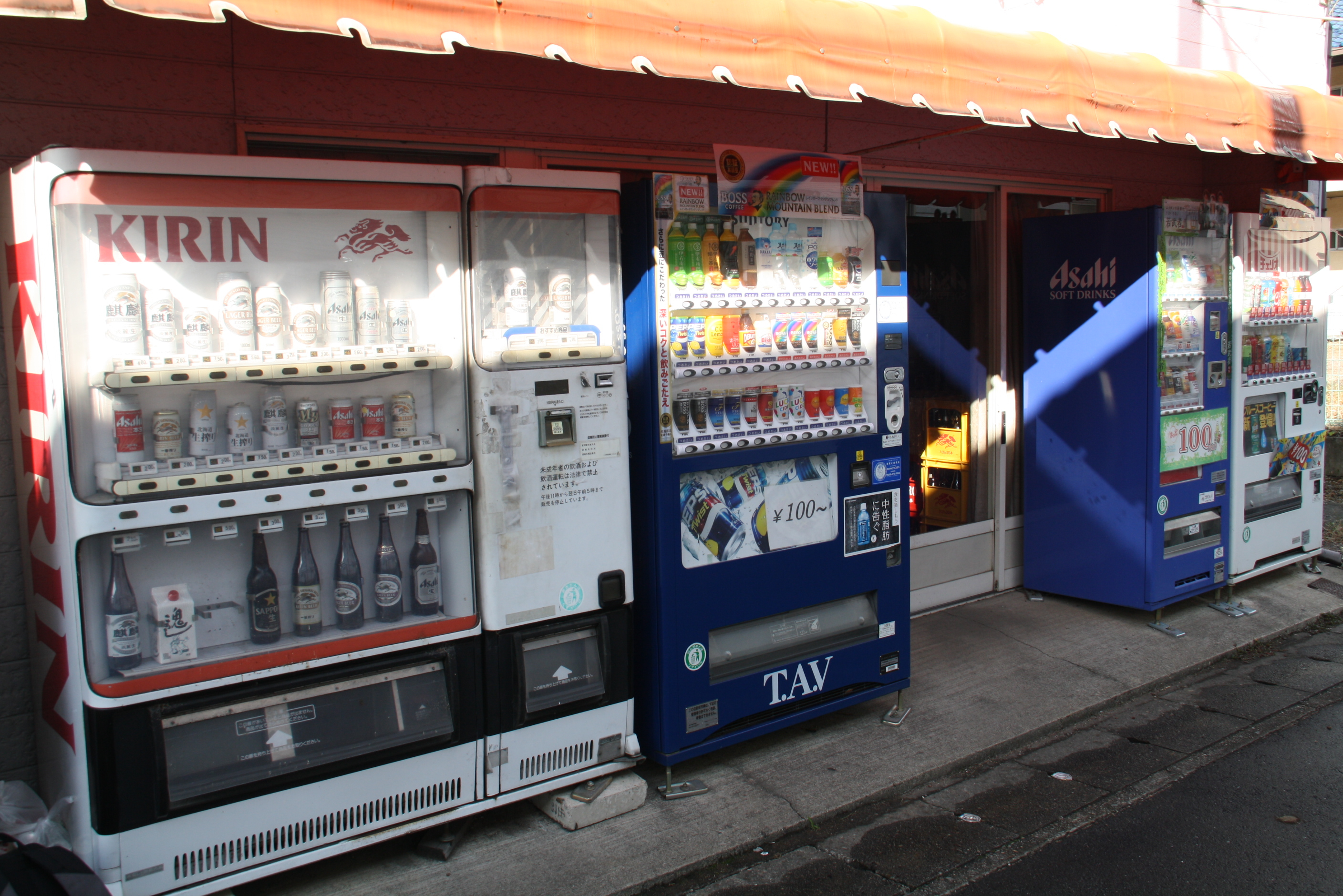 You can buy sake in addition to 500ml and 1L beers in this machine... amazing.